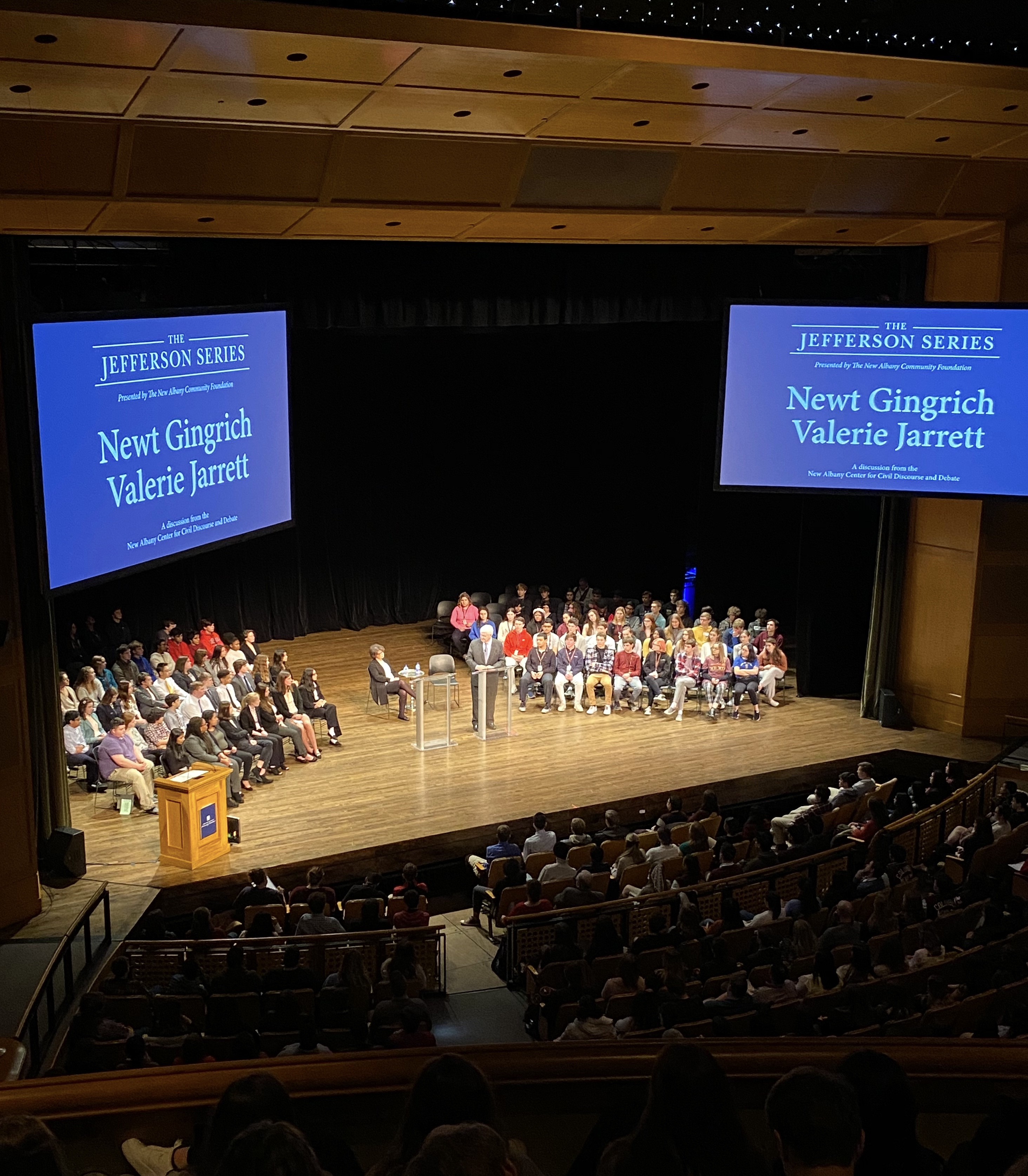 Newt Gingrich, former U.S. Speaker of the House, and Valerie Jarrett, former senior advisor to President Barack Obama, engage in a dialogue before more than 900 central Ohio students as part of the 2020 Jefferson Series Student lecture program presented by the New Albany Community Foundation at the Jeanne B. McCoy Community Center for the Art in New Albany, Ohio. Organized with the New Albany Center for Civil Discourse and Debate.